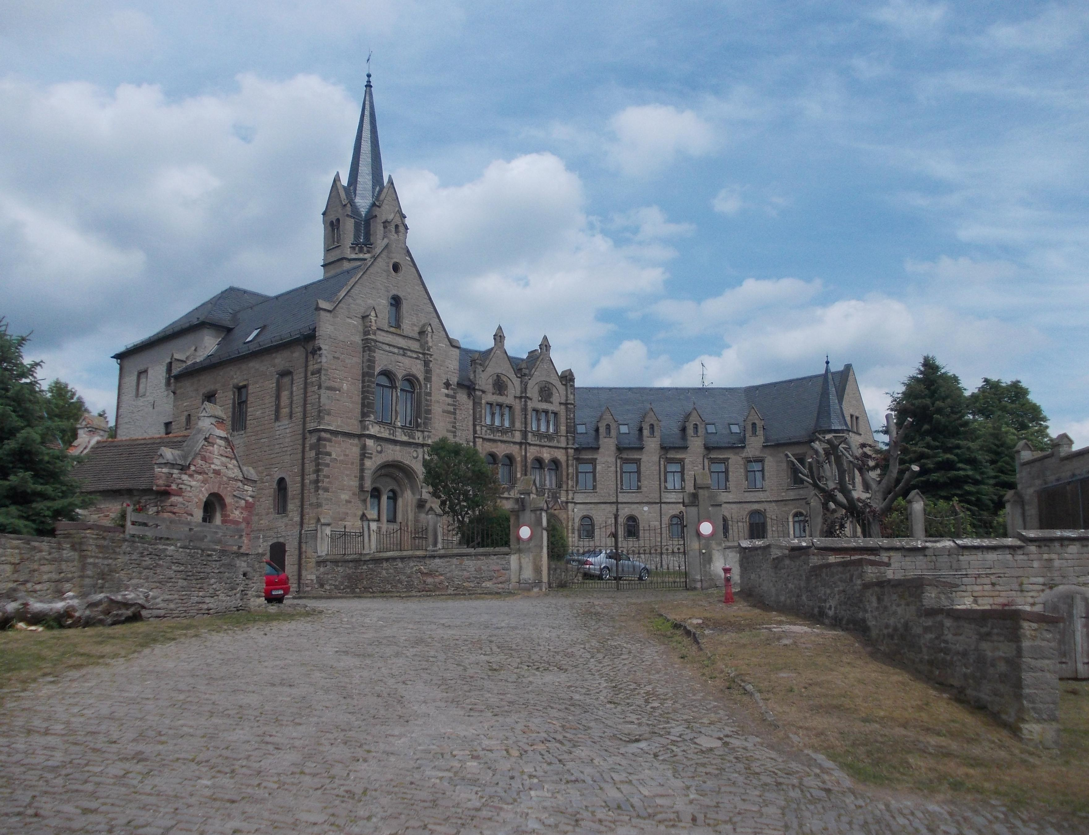 Beyernaumburg Castle (Allstedt, Mansfeld-Südharz district, Saxony-Anhalt)